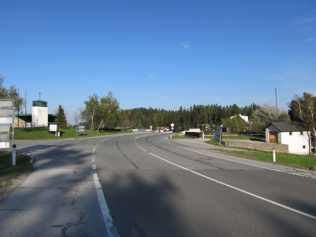 Wechsel pass summit